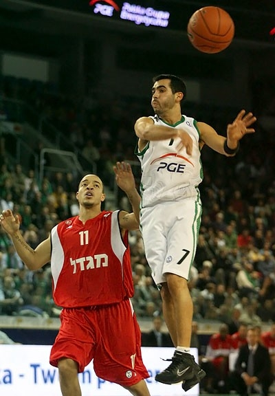 Andres Rodriguez (PGE Turów Zgorzelec). ULEB Cup game (december 2007) - PGE Turów Zgorzelec - Hapoel Jerusalem.